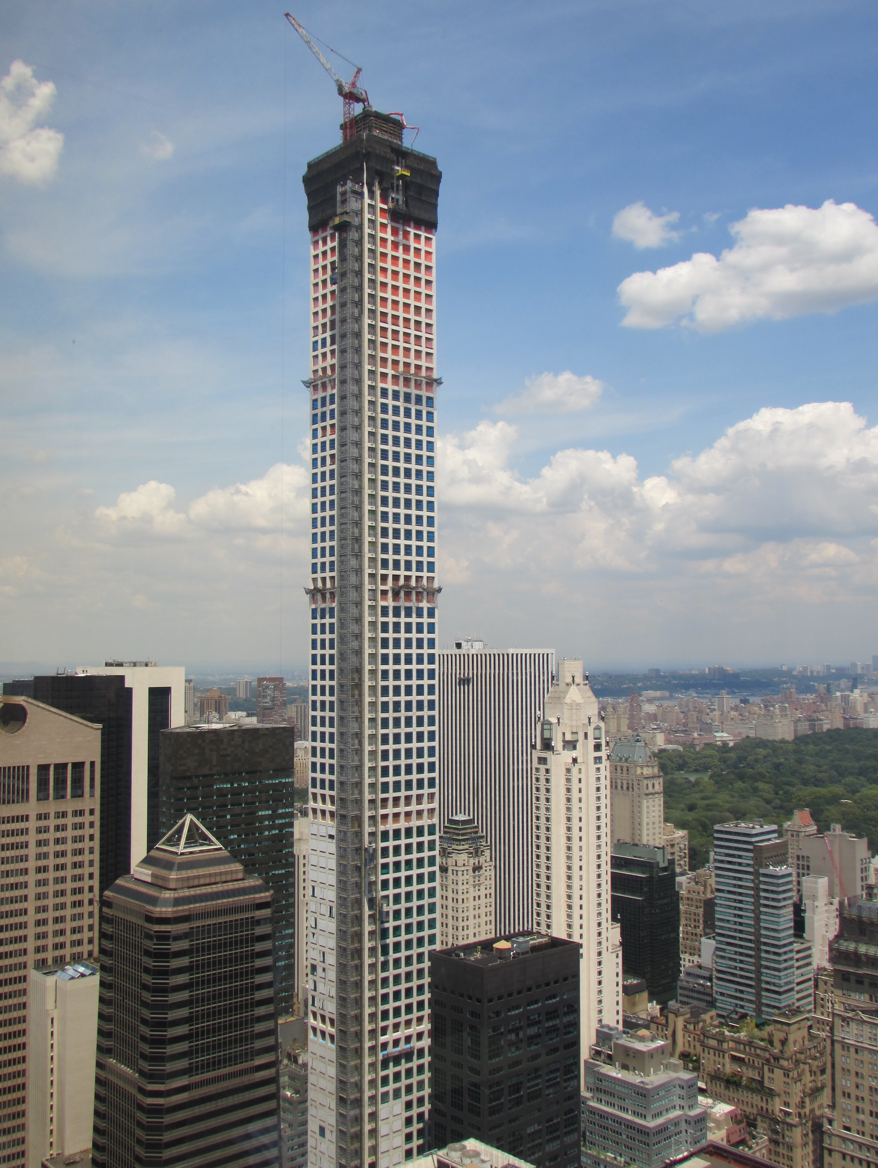 A view of 432 Park Avenue under construction from the Citigroup Center, as of August 11, 2014.